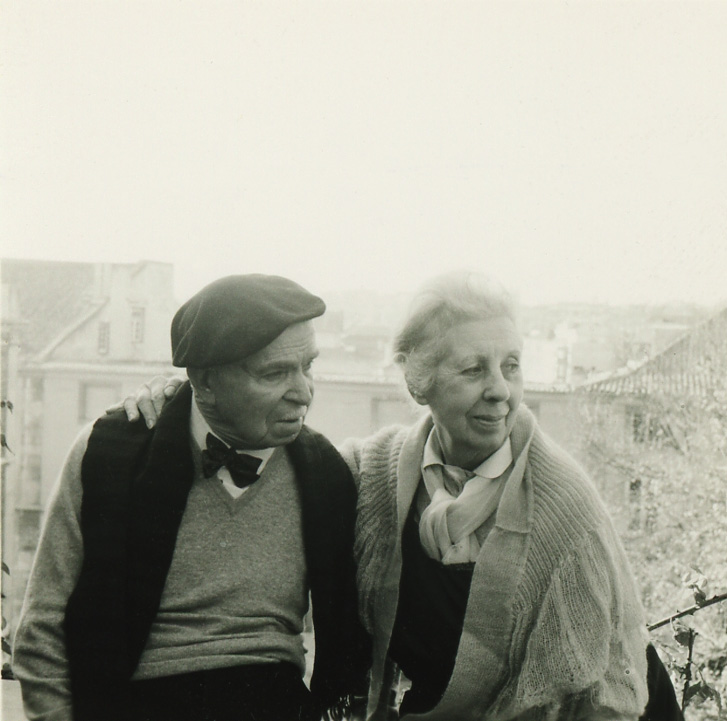 Abel Manta and Clementina Carneiro de Moura, Lisbon, 1973